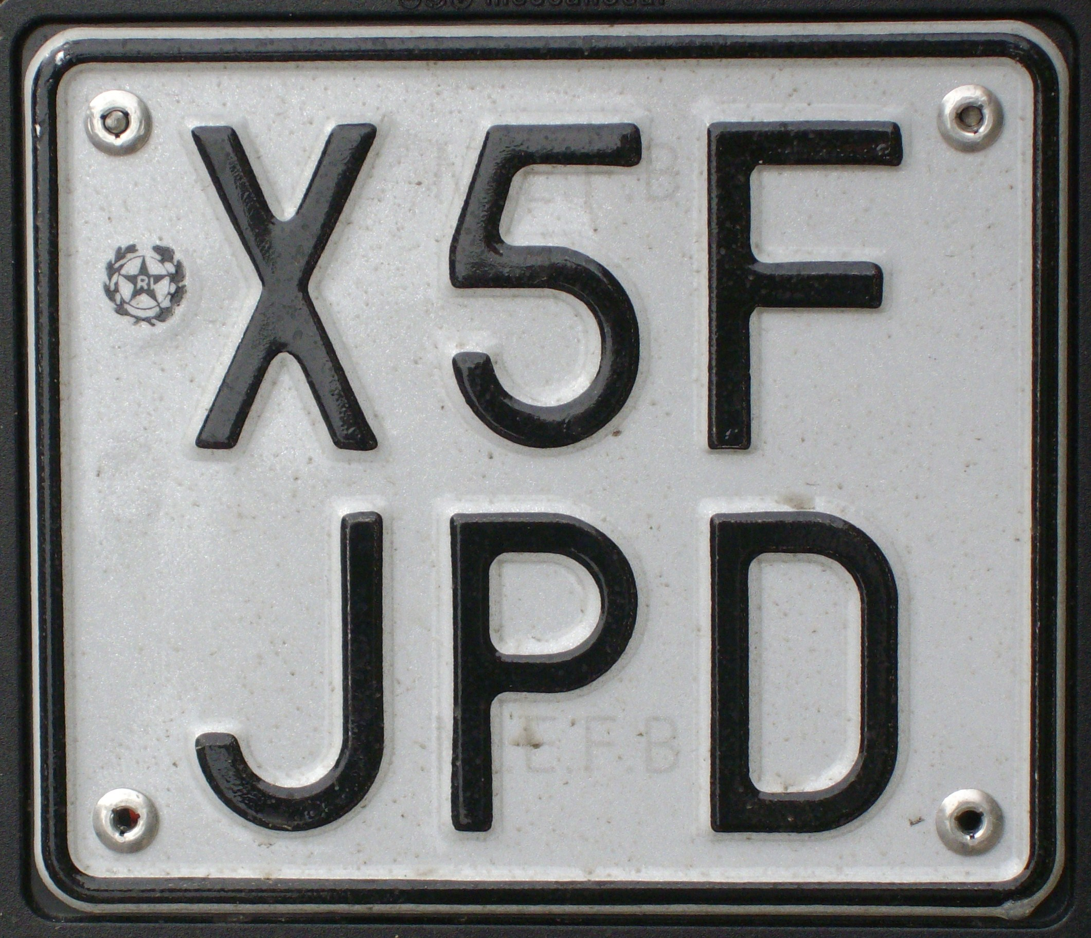 Italy, Targhe automobilistiche italiane. The registration plate in use for the scooter from July 2006.